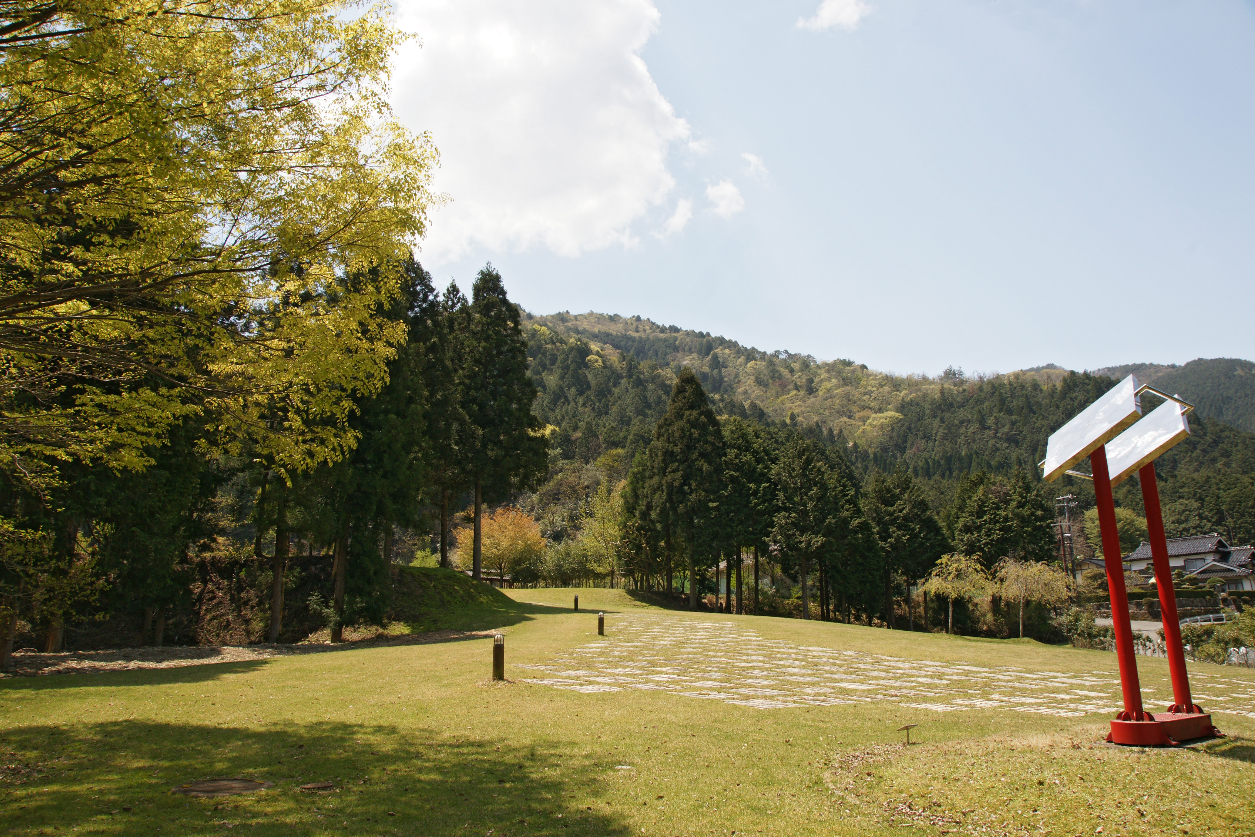 Asago Art Village in Asago, Hyogo prefecture, Japan.